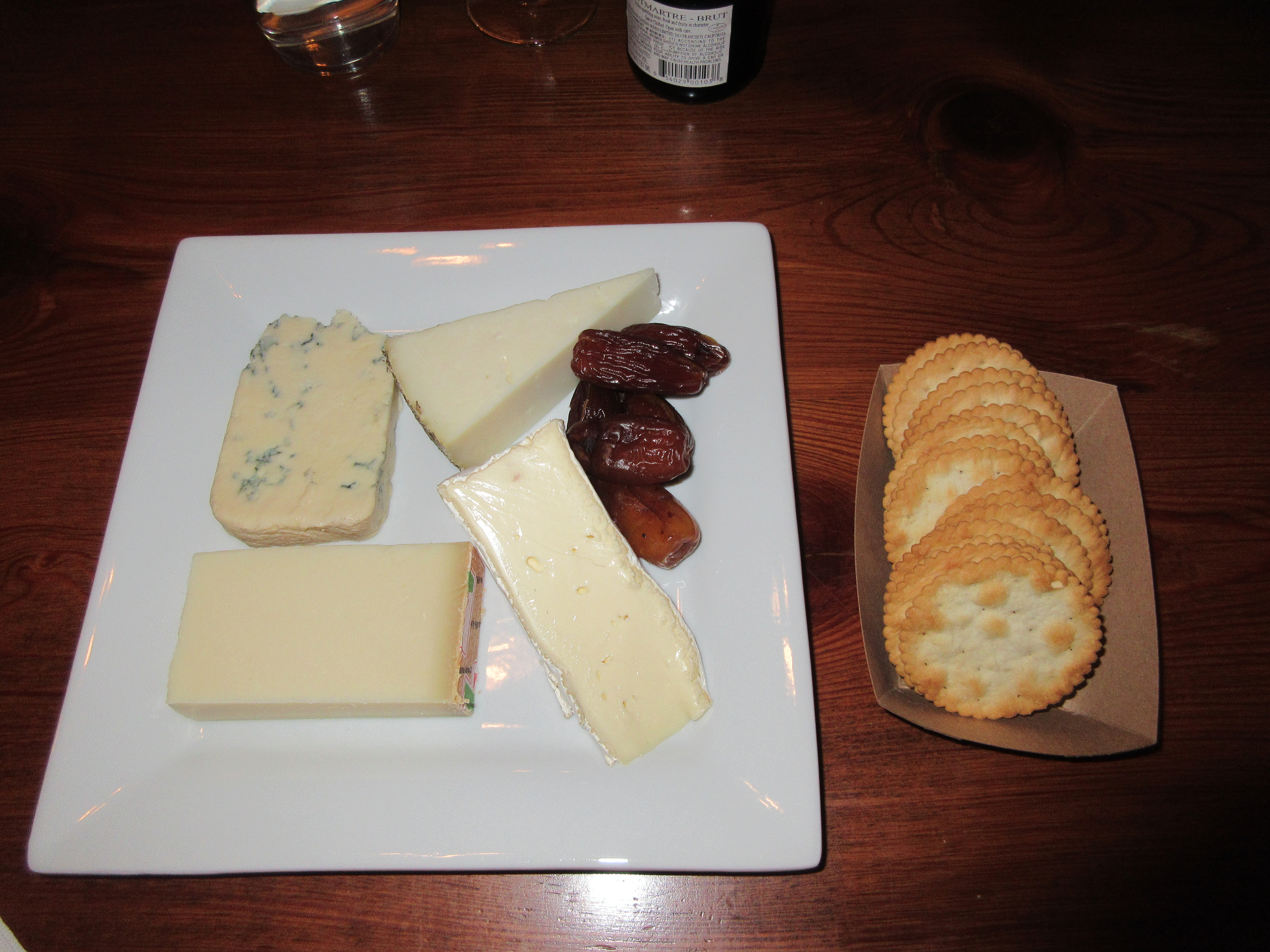 With Ms Holie at "Vine and Dine", Algiers Point, New Orleans. Tasty wine & cheese plate.